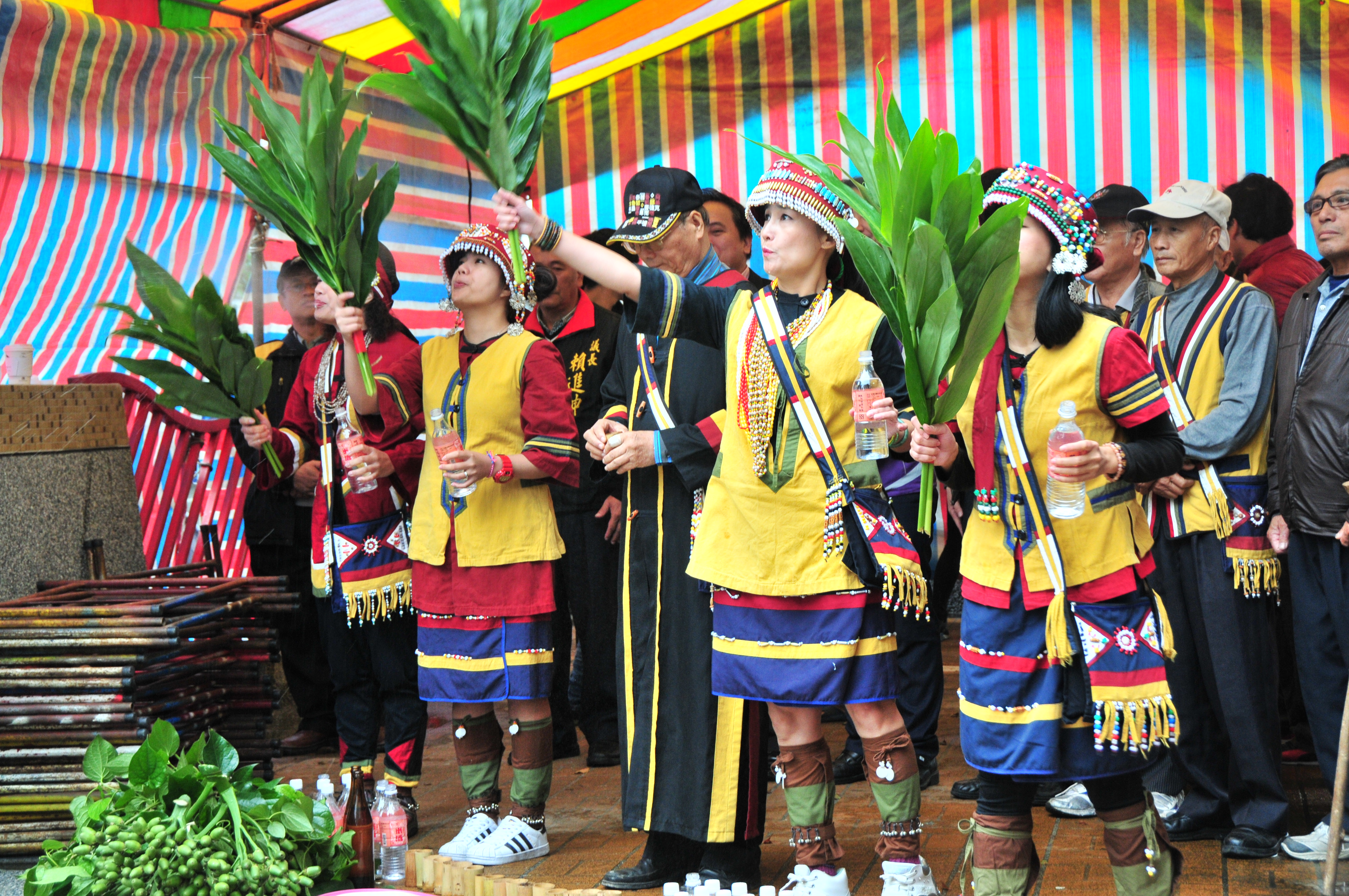 20170117-mibetik tu nababalaki-1